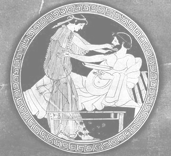 Hetaira